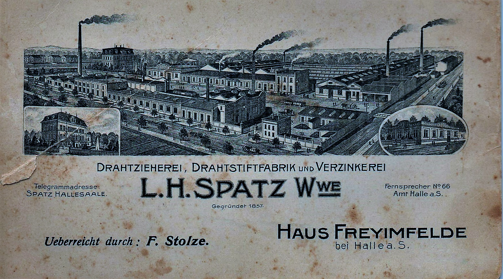 Business card of the company L. H. Spatz Wwe in Diemitz